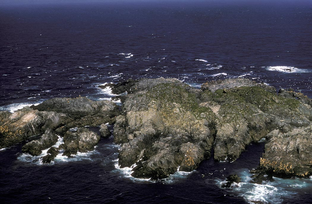 Glaucous-winged Gulls (Larus glaucescens) and Sea Lions at Hazy Islands Wilderness, Alaska, USA.